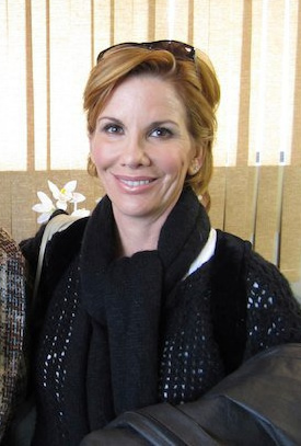 Melissa Gilbert after a shoot for the Partnership for a Drug Free America.